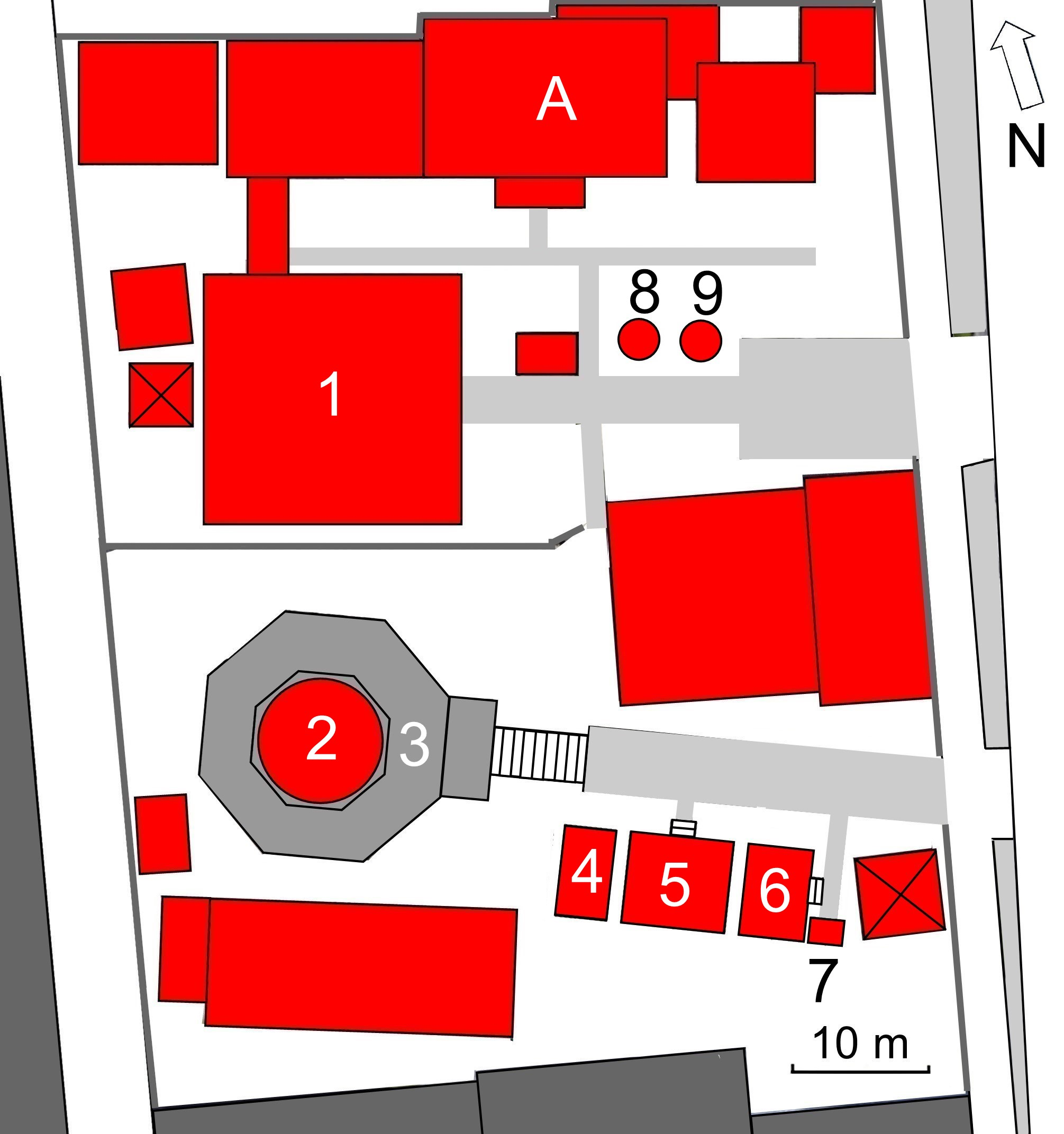 Layout of Nôbuku-ji temple at Kôbe, Osaka prefecture, Japan